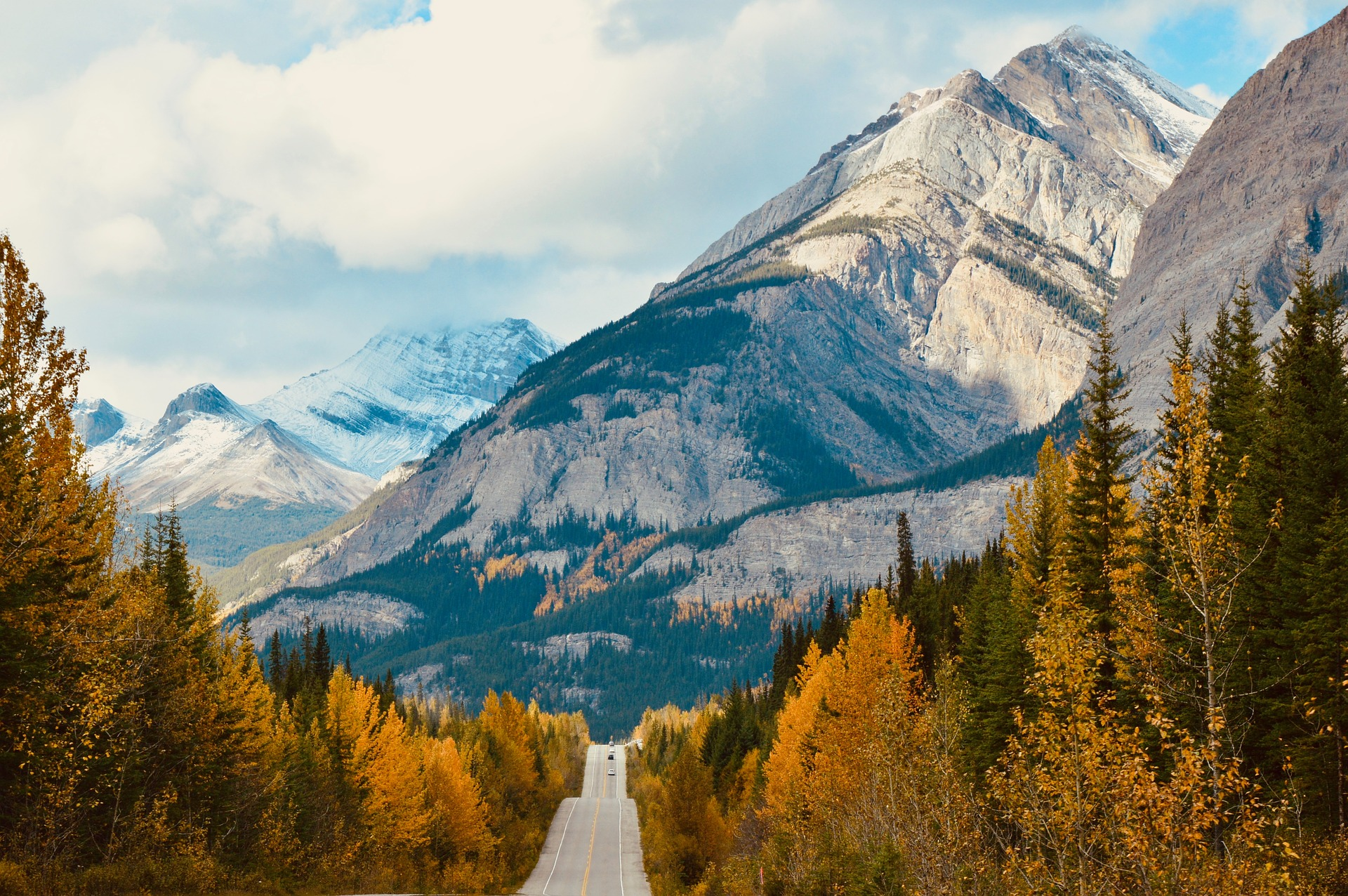 Icefields Parkway view of Mount Coleman (left), Banff National Park, Alberta